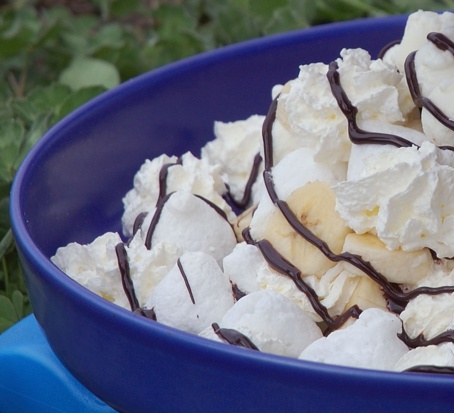 Food